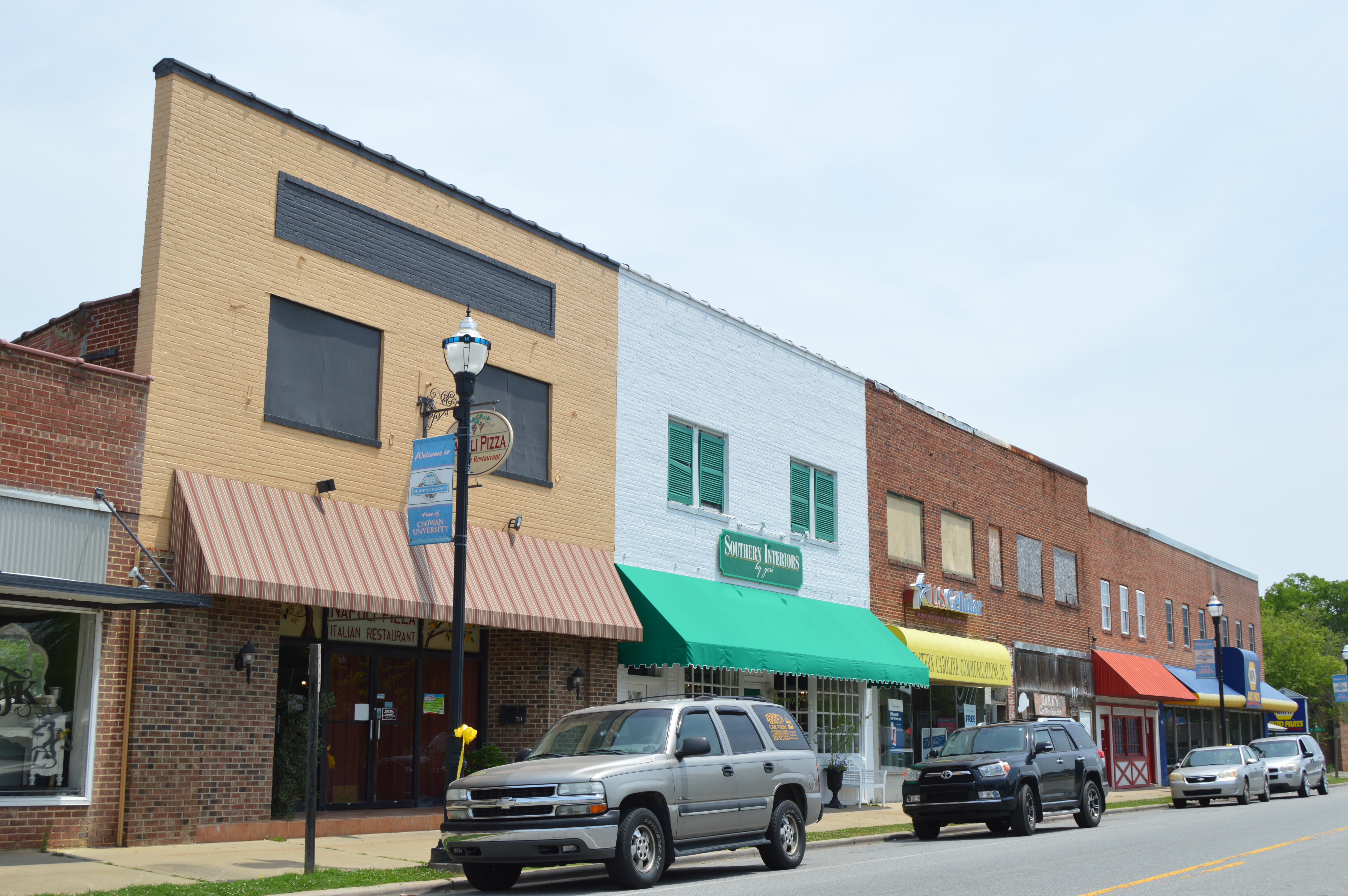 Buildings on the northern side of the 300 block of Main Street in Murfreesboro, North Carolina, United States. This block is included within the Murfreesboro Historic District, a historic district that is listed on the National Register of Historic Places.